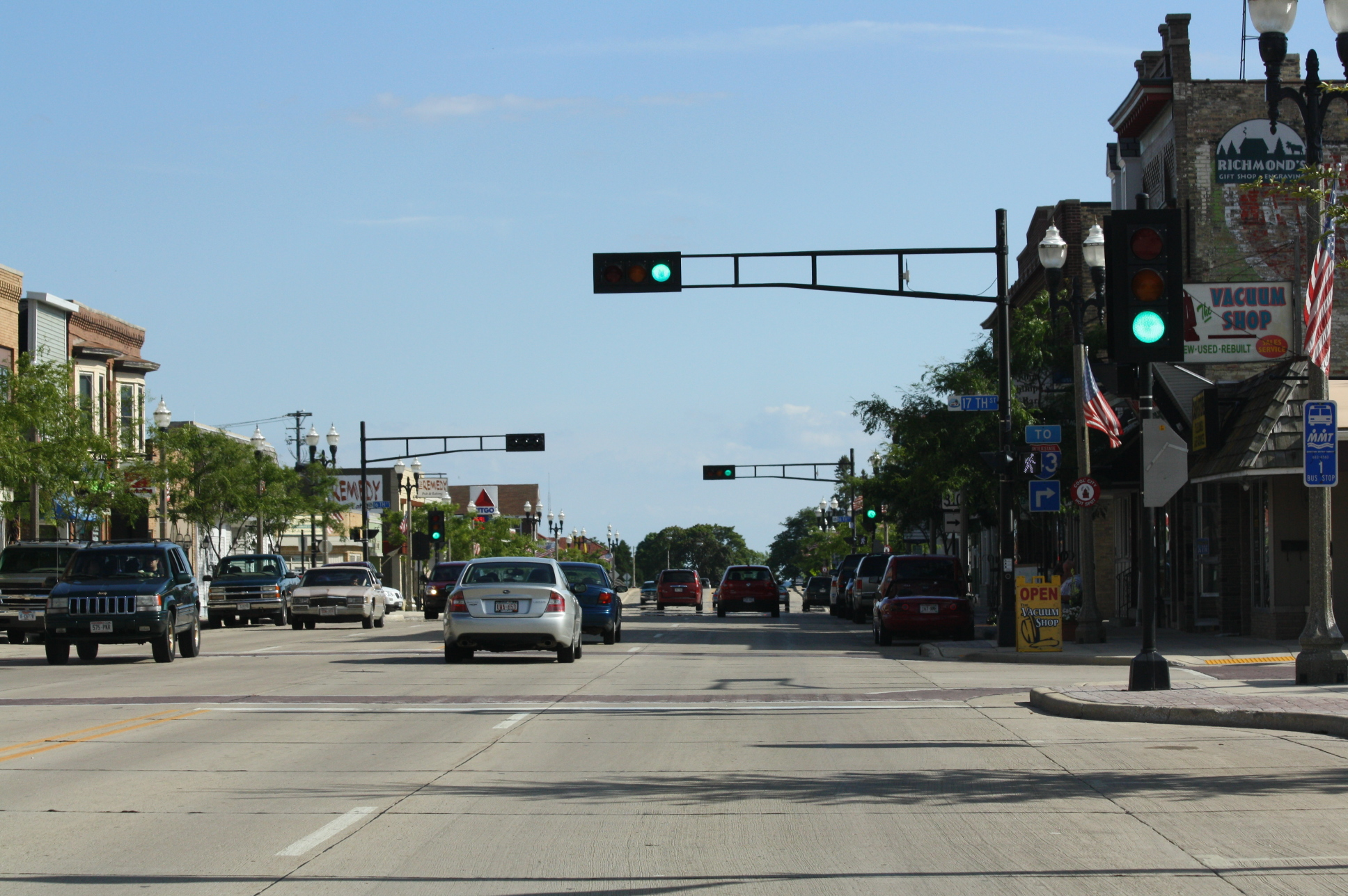 Looking south at the Central Park Historic District in Two Rivers, Wisconsin while traveling on Wisconsin Highway 42.